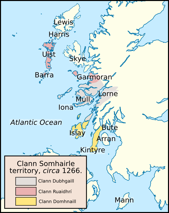 The territories of Clann Somhairle, circa 1266.